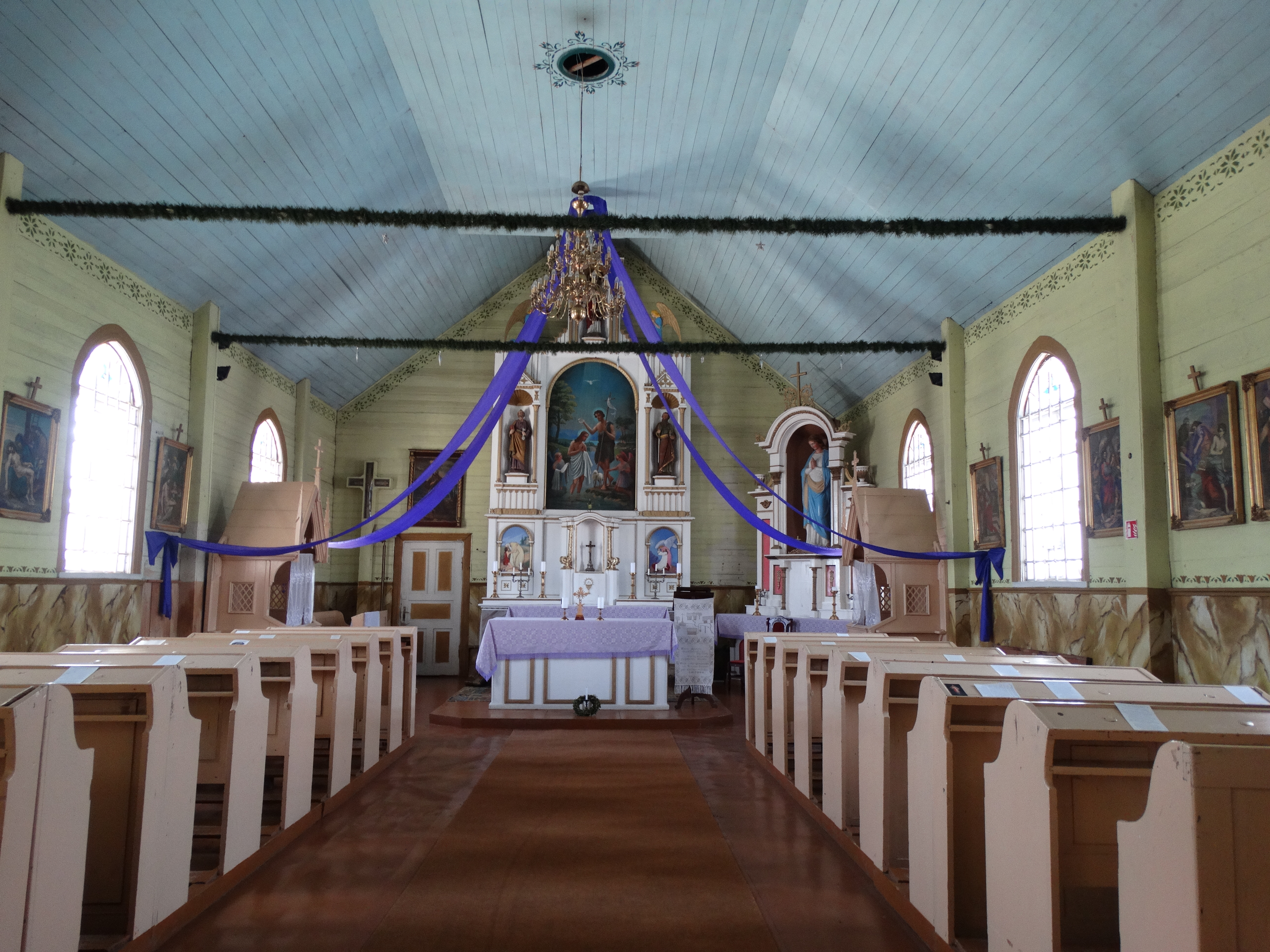 Saint John the Baptist church in Vertimai, Jurbarkas district, Lithuania